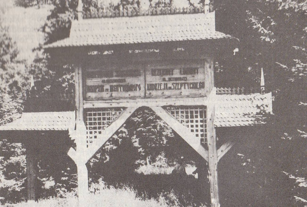 Nature Reserve of Swiss Pine created by Andrey Sheptytsky at Jajko Perehynskie mountain near Perehinske